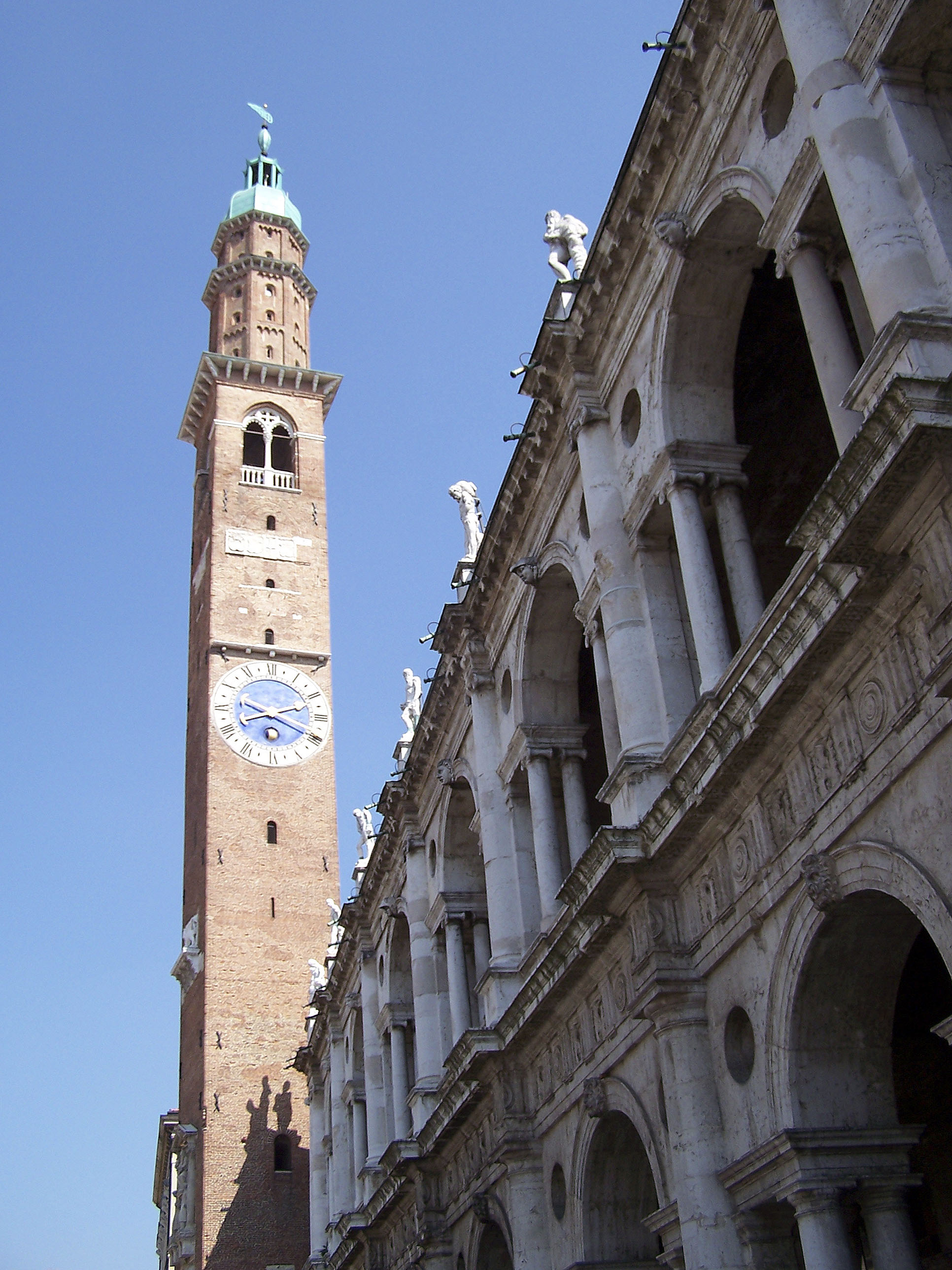 Tower and loggia of the Basilica Palladiana on the Piazza dei Signori in Vicenza, Italy